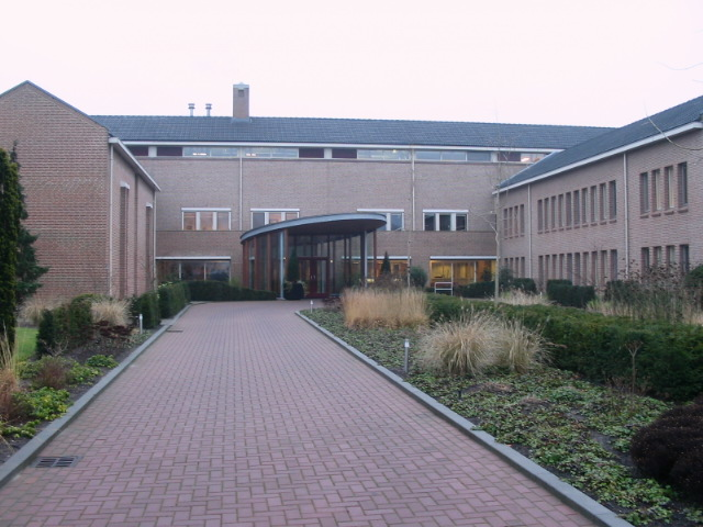 Jehovah's Witnesses Branche office in The Netherlands